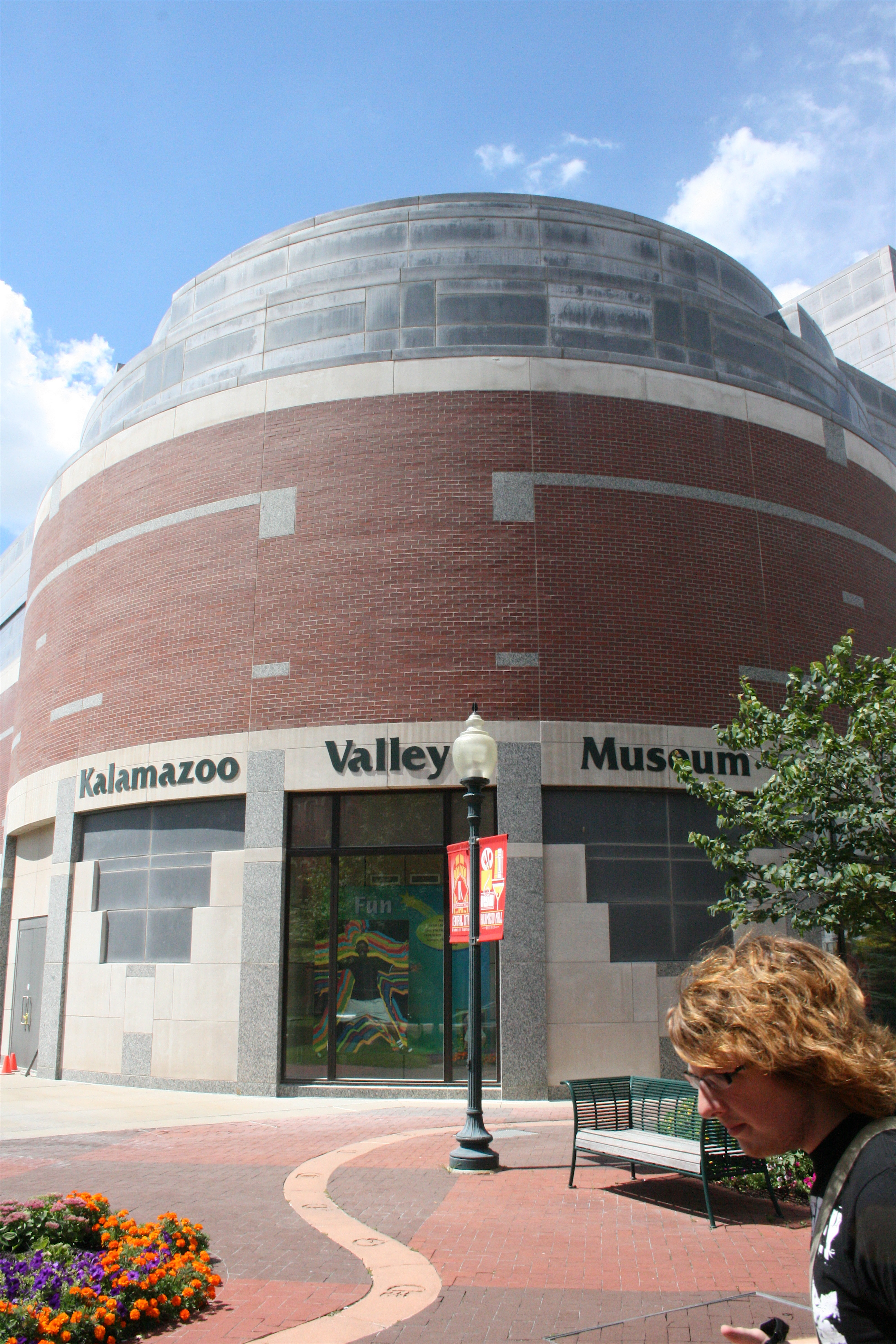 The Kalamazoo Valley Museum in downtown Kalamazoo, MI. In the foreground you can see a pedestrian in the Kalamazoo area.